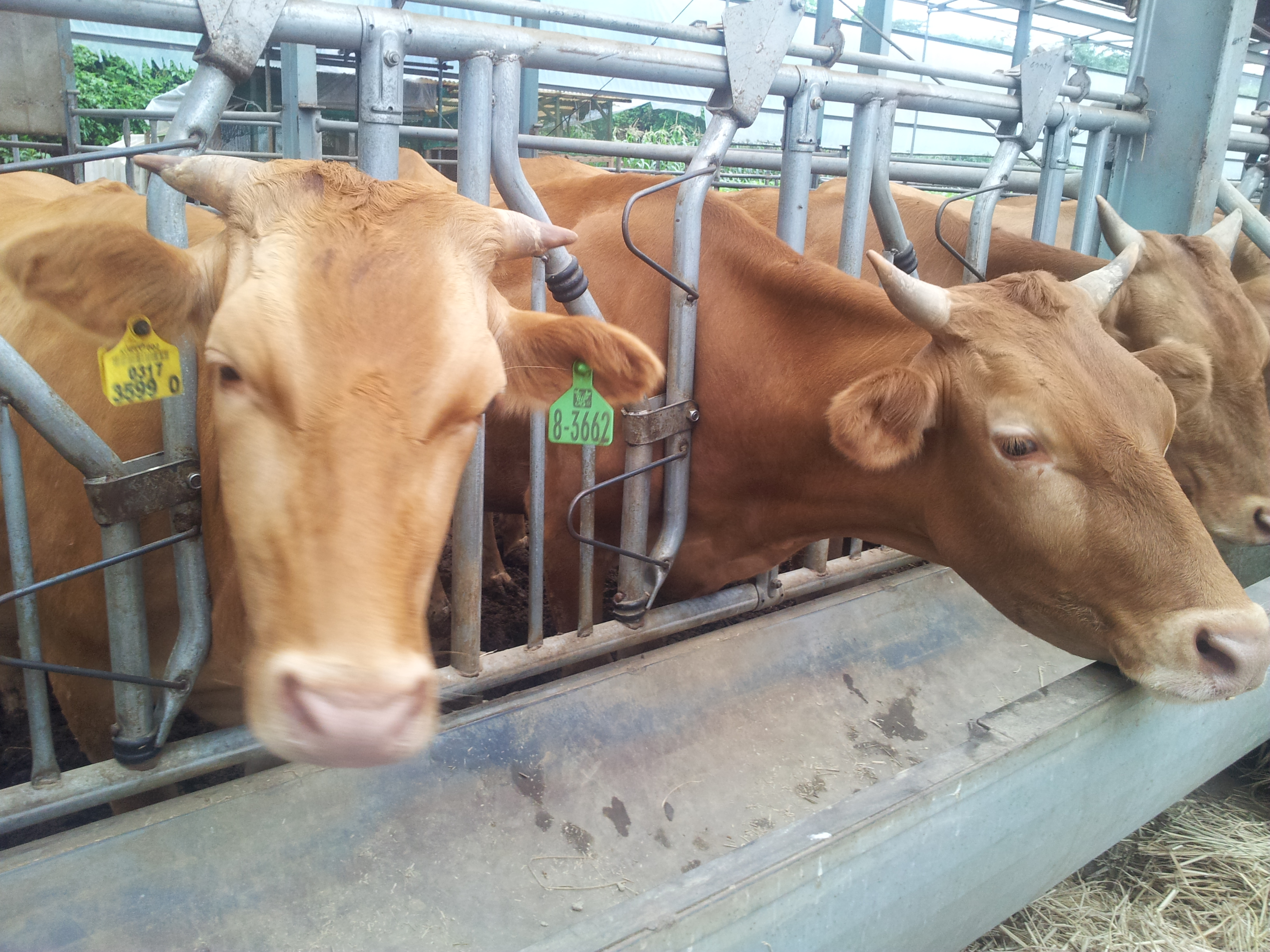 Korean Hoengseong native cattle